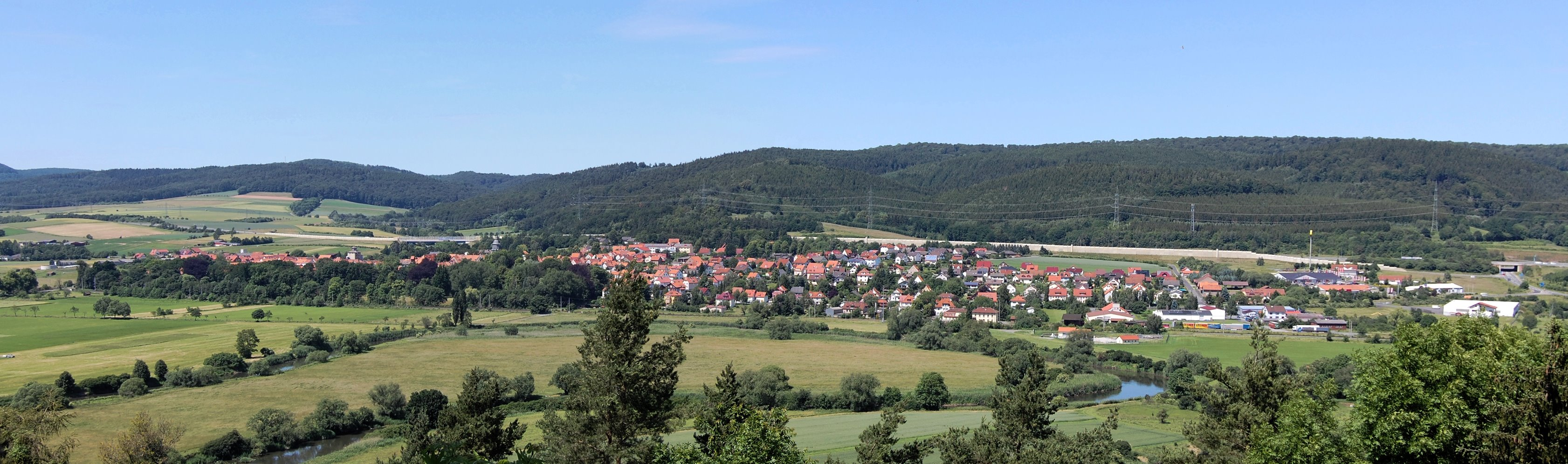 Herleshausen, Hessen, Germany: Panoramic view from castle "Brandenburg" This image was stiched from 3 Images by using hugin software